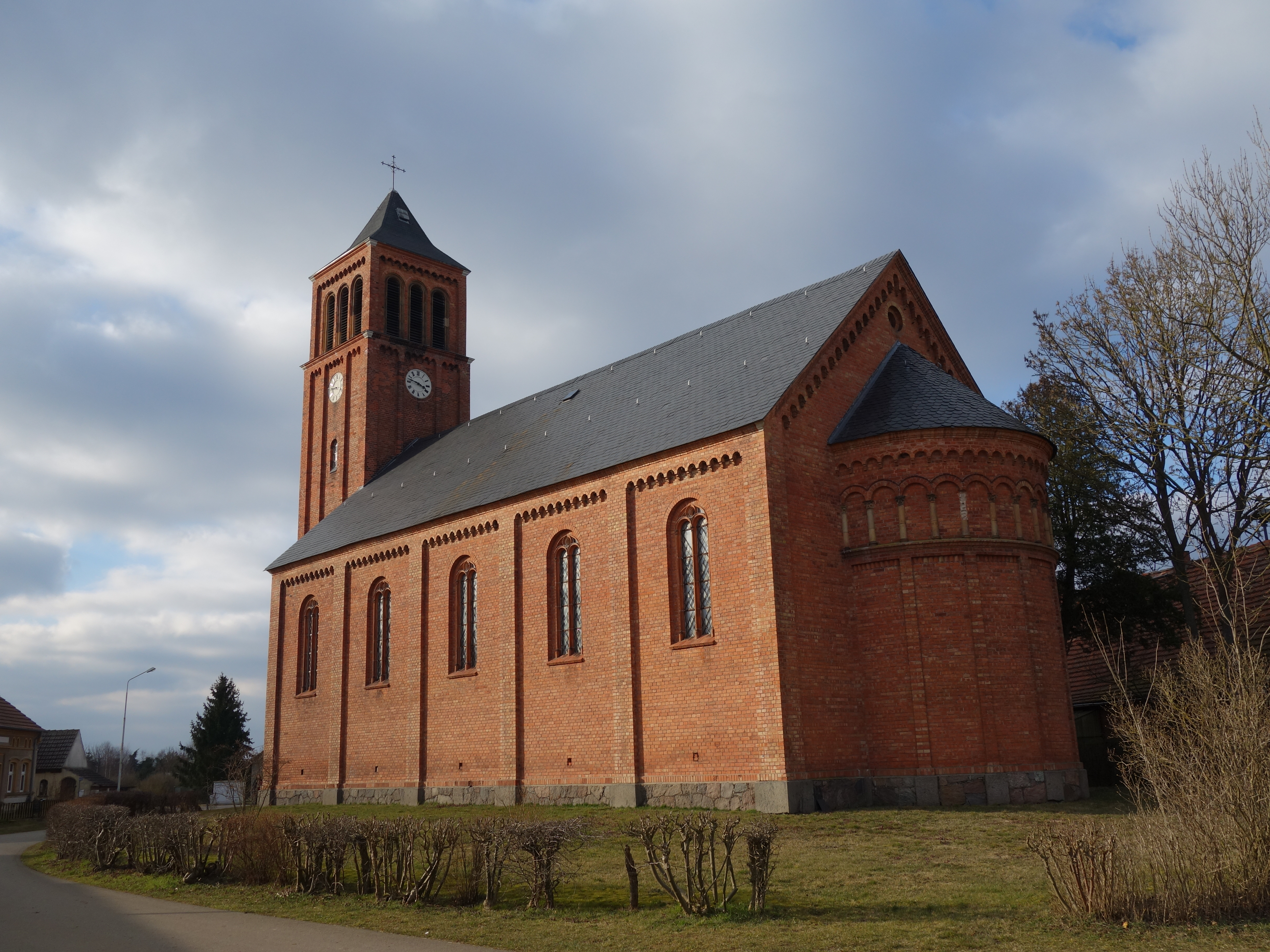 South-eastern view of Teetz church, Kyritz municipality, Ostprignitz-Ruppin district, Brandenburg state, Germany